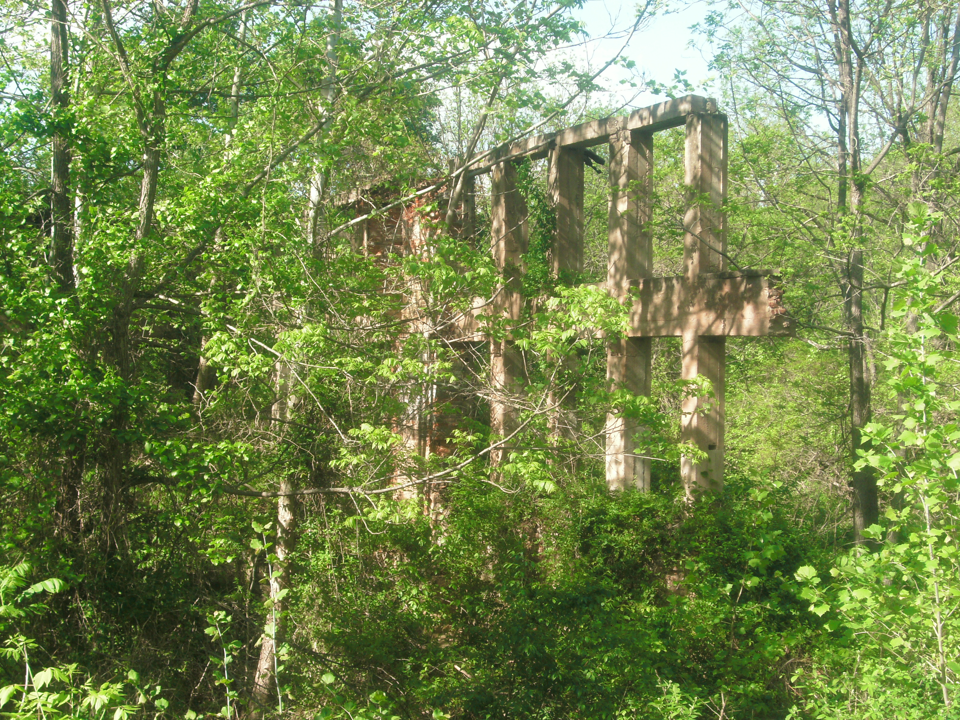 Taken by me in May, 2016 GEDSC DIGITAL CAMERA